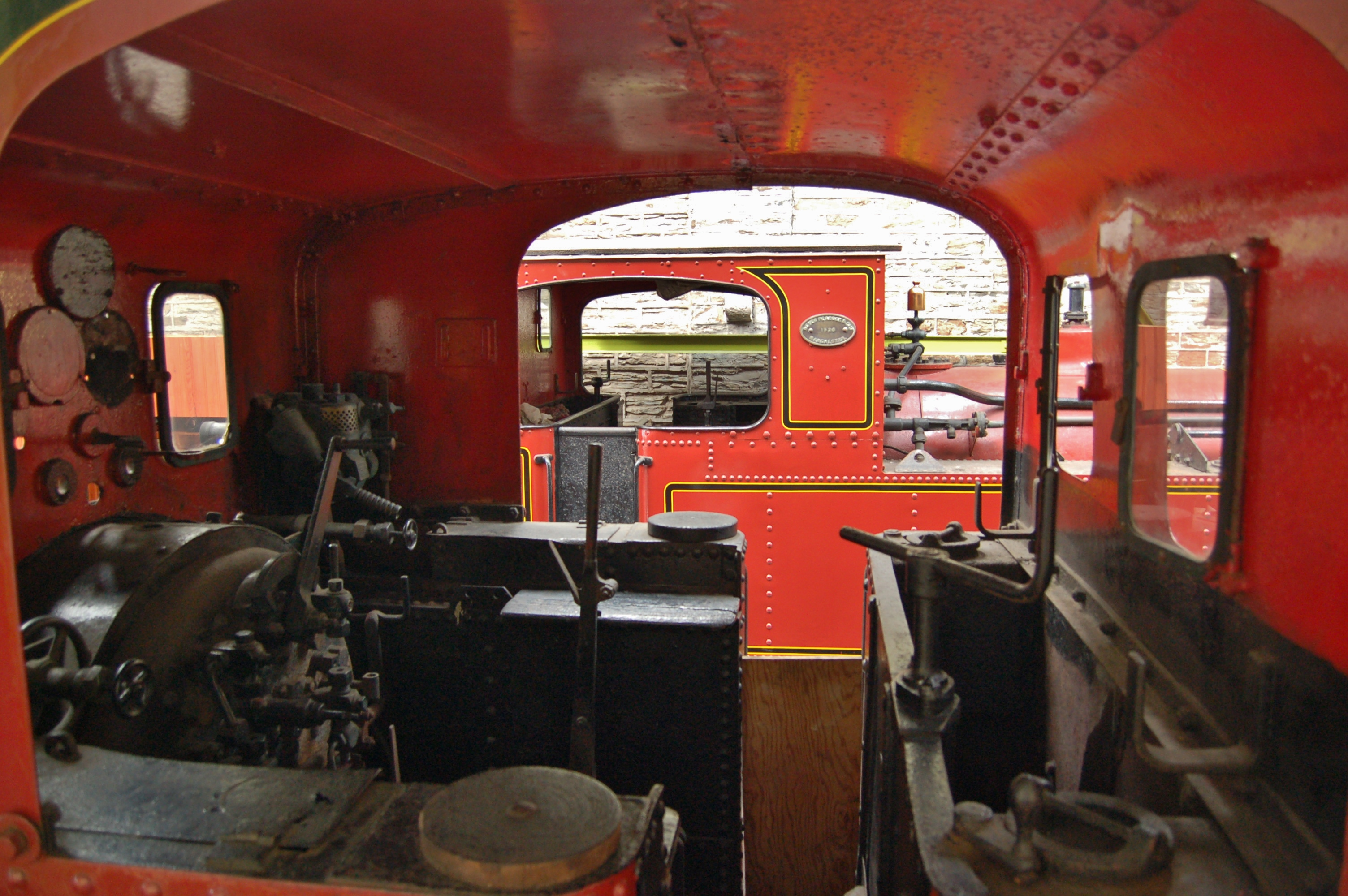 Isle of Man Railway steam locomotives on static display at the Port Erin Railway Museum, Port Erin, Isle of Man: No. 6 Peveril in the foreground, and No. 16 Mannin in the background.